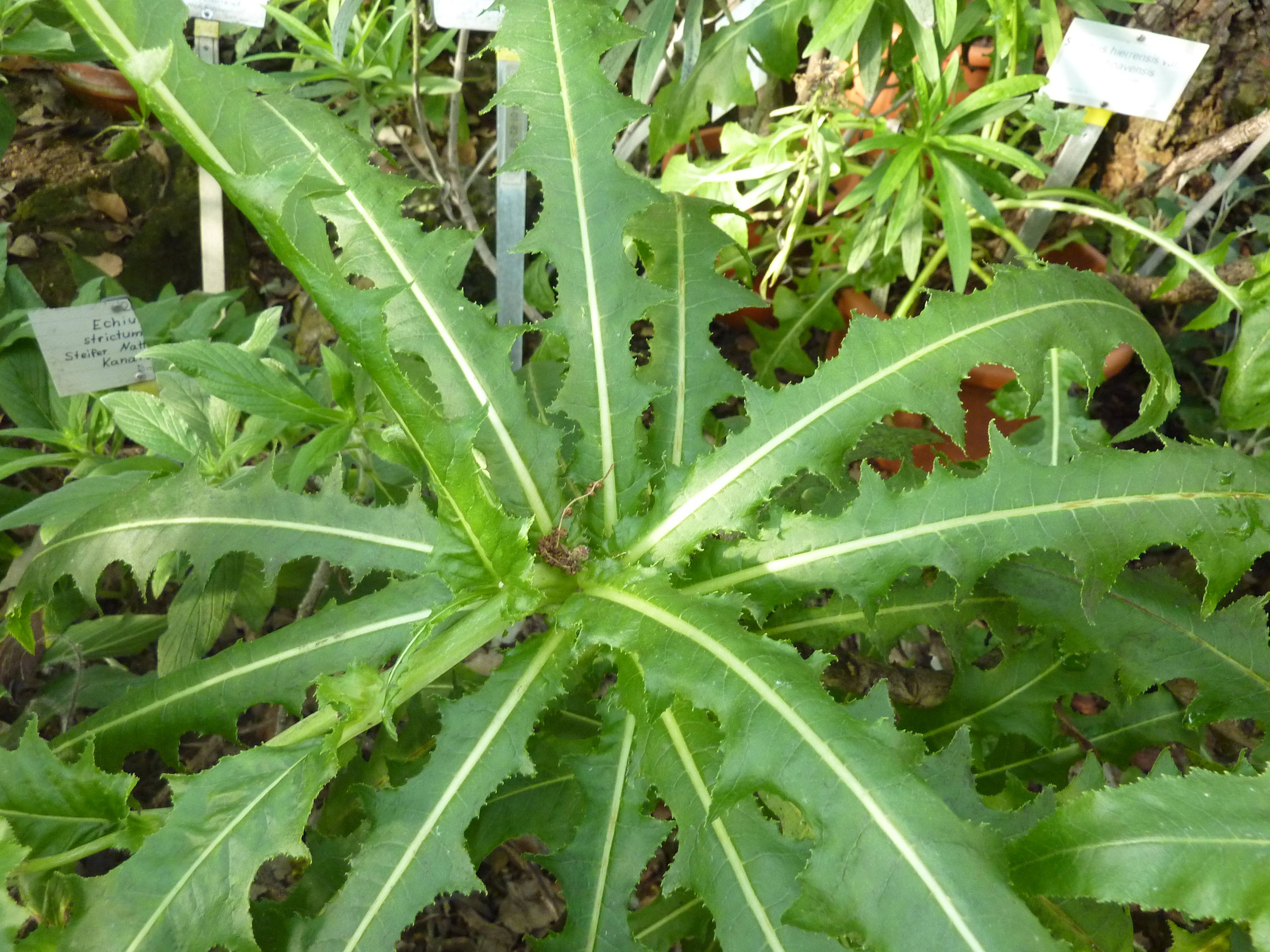 Sonchus congestus in the Botanical Garden, Berlin